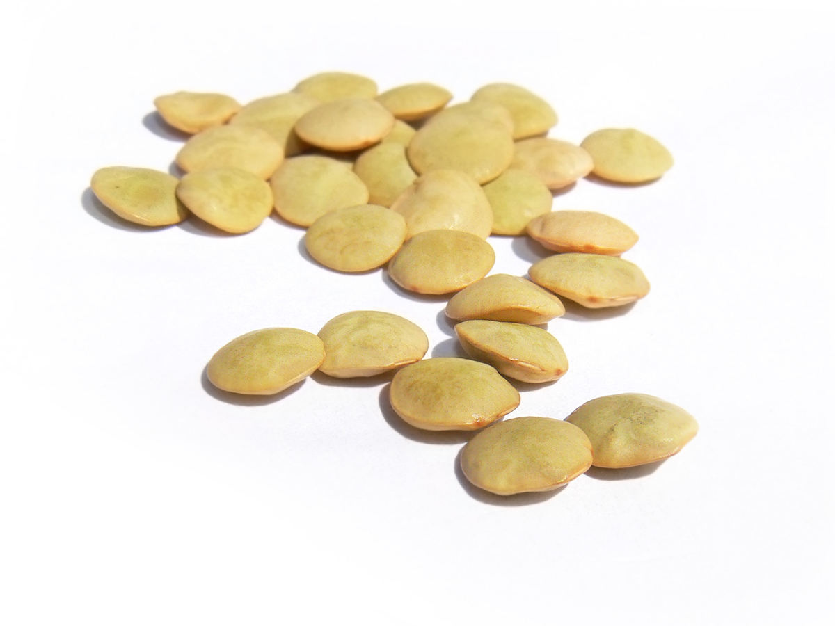 Brown lentils (Lens culinaris)